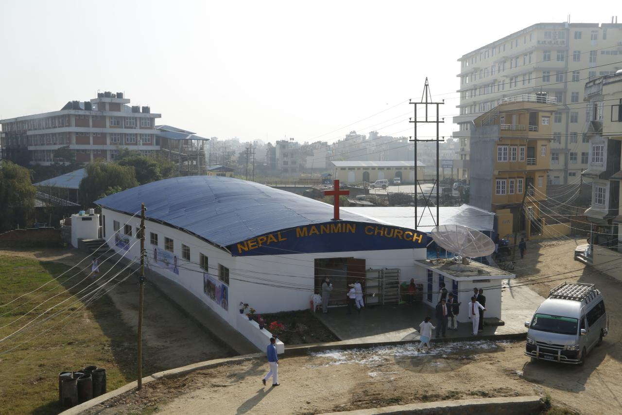 Nepal Manmin Church